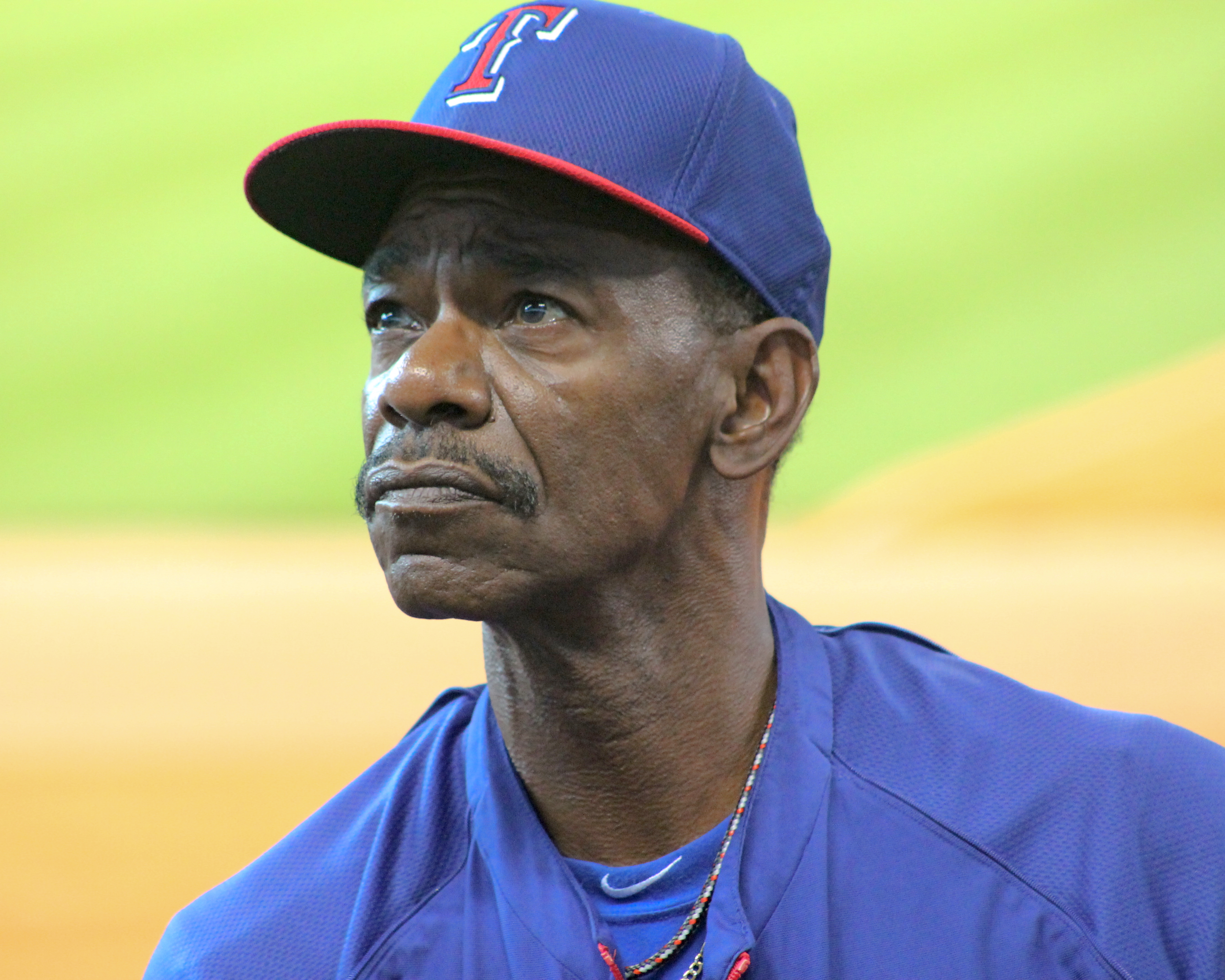 Professional baseball manager Ron Washington tosses a baseball to a fan in Houston in August 2014.